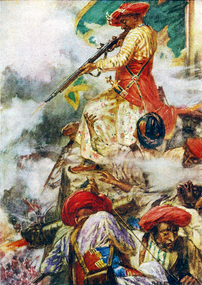 Tipu Sultan firing at his adversaries during the siege of Seringapatam, 1791 The Battle of Carigat was fought May 13, 1791, between British and Indian troops led by Tipu Sultan. In the 1790s three wars against British rule in India were fought by Hyder Ali and his son Tipu (1750-1799), Muslim ruler of the Kingdom of Mysore in the South of India. They were sophisticated in the use of weapons: canons, muskets and unprecedented iron-cased rockets. Surprisingly, one of the world's largest factories of those days was located in Ichapur, near Calcutta. In busy years, like those of the Mysore Wars, 2,000 and more skilled labourers were engaged in the manufacture of gunpowder. Their behaviour in the field of industrial relations is even more surprising: they knew how to raise their wages through collective action and introduced a pension scheme for victims of work accidents in 1783. The workforce consisted of migrants, hailing from as far away as Chittagong in the East to Bishnupur and beyond in the West. Jan Lucassen goes into the details of this story in 'Working at the Ichapur Gunpowder Factory in the 1790s